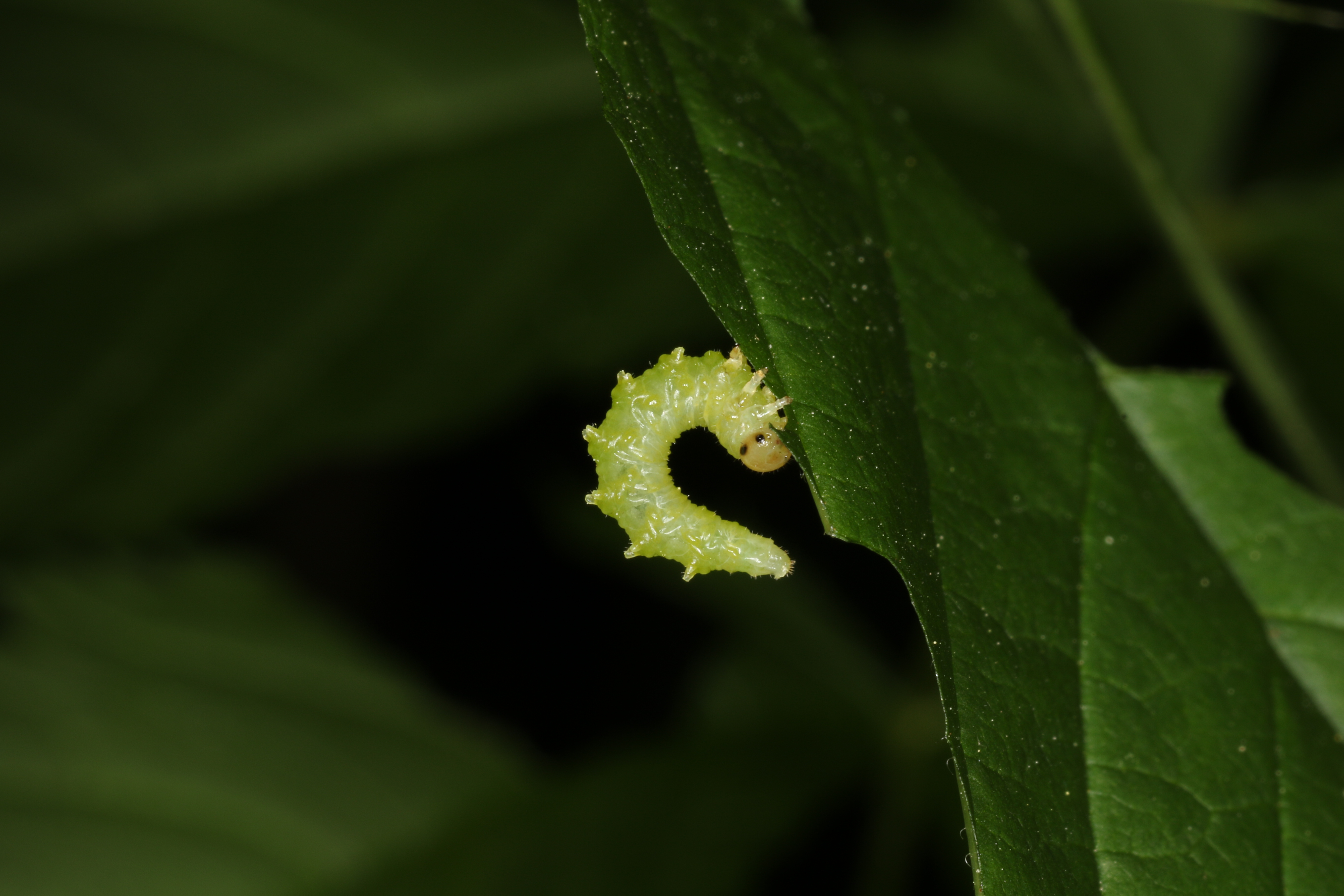 Nematus spiraeae Zaddach, 1883, larva, on Aruncus dioicus (Walter) Fernald, Søborg, Denmark, 5 June 2015 Cf.